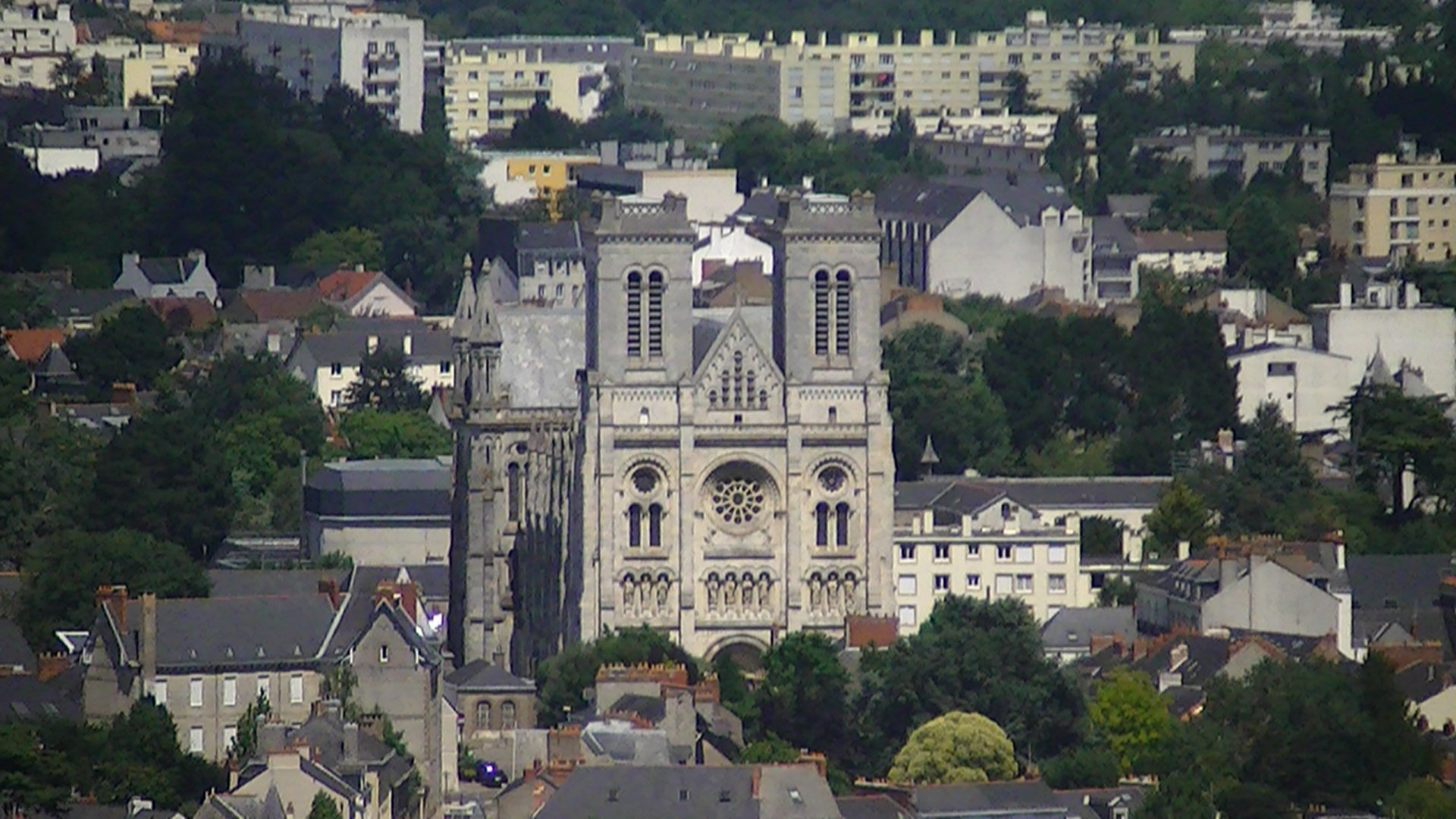 Basilique Saint-Donatien et Saint-Rogatien, Nantes, as seen from the observation deck of the Tour Bretagne.